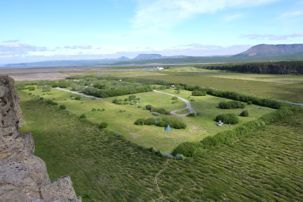 The campsite in Ásbyrgi, as seen from a nearby cliff. Vatnajökull National Park's visitor centre in north Iceland, Gljúfrastofa, can be seen further away.